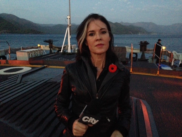 Avery Haines reporting from HMSC Toronto